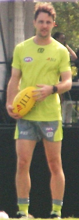 Brendan Hosking before a game between the Brisbane Lions and Sydney in the 2018 JLT Community Series